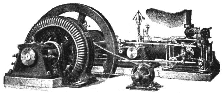 From the text: Fig 2770. Murray alternating current direct-connected unit with high speed Corliss engine and belt-driven exciter, 50, 75, 100 KVA alternator and 150 RPM engine. Note: This image is only about 3 inches wide and 1.5 inches tall in the book -- a testament to the high printed-image quality of these 90 year old engineering books that cost $1 per volume in 1917.